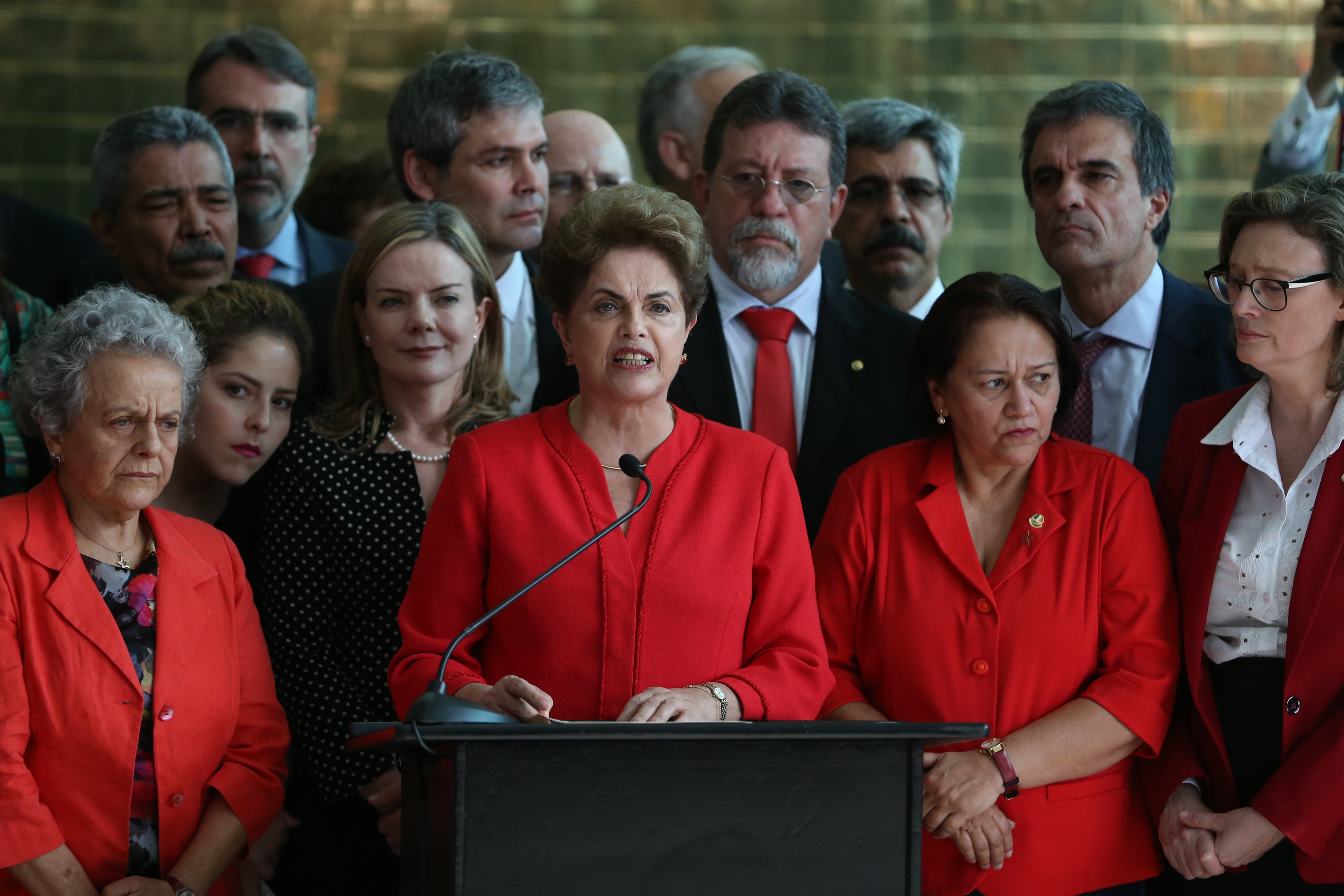 Brasília - Após o impeachment, a ex-presidenta Dilma Rousseff faz pronunciamento no Palácio da Alvorada. Ela disse ter sofrido o segundo golpe de Estado em sua vida (José Cruz/Agência Brasil)